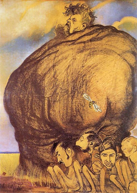 Jan Stanisławski with students (from left: Stefan Filipkiewicz, Stanisław Czajkowski, Henryk Szczygliński, Stanisław Kamocki) 1905.